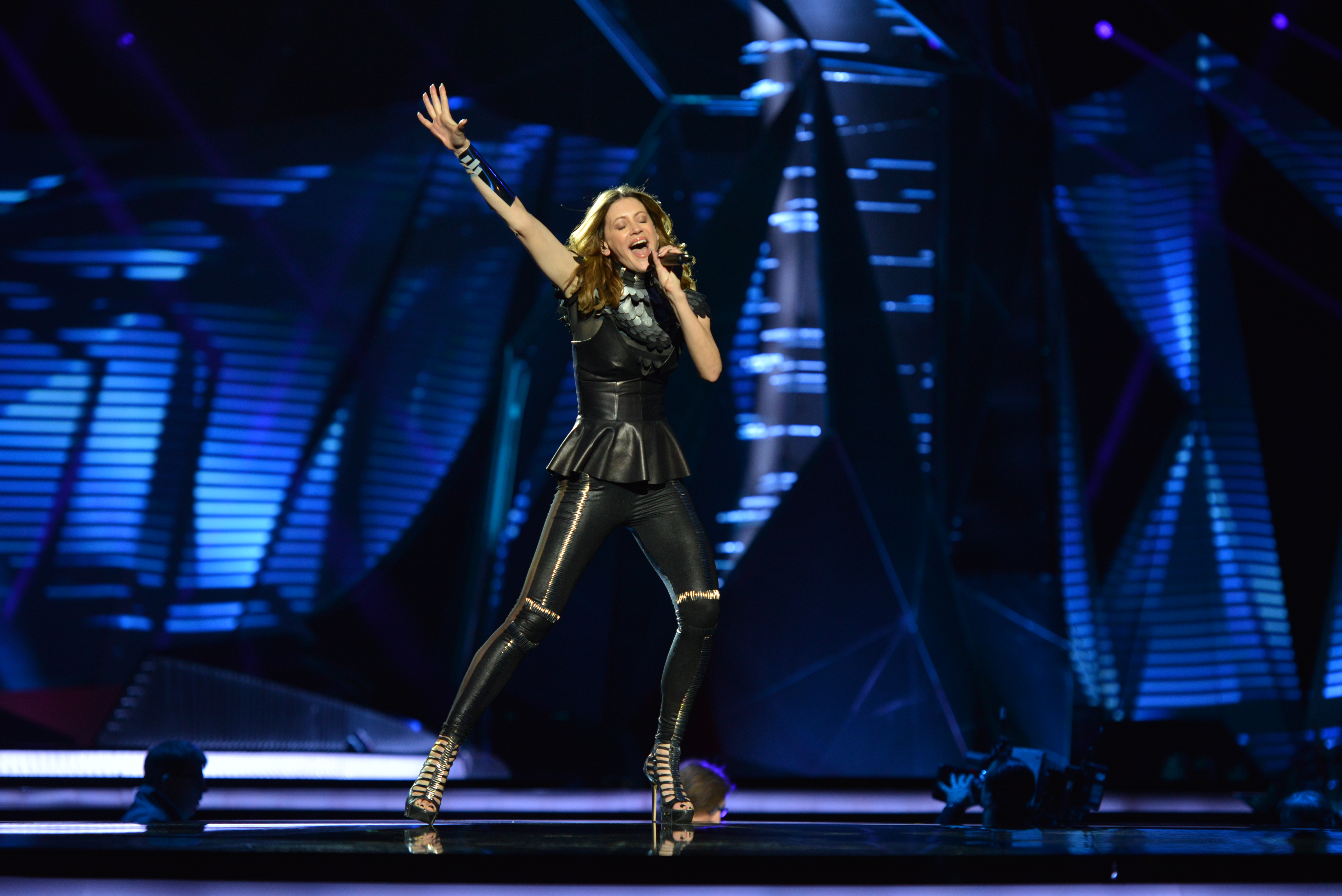 Hannah representing Slovenia with the song "Straight into Love" during the first dress rehearsal of the first semi final of the Eurovision Song Contest 2013 in Malmö. (Help translate this text)